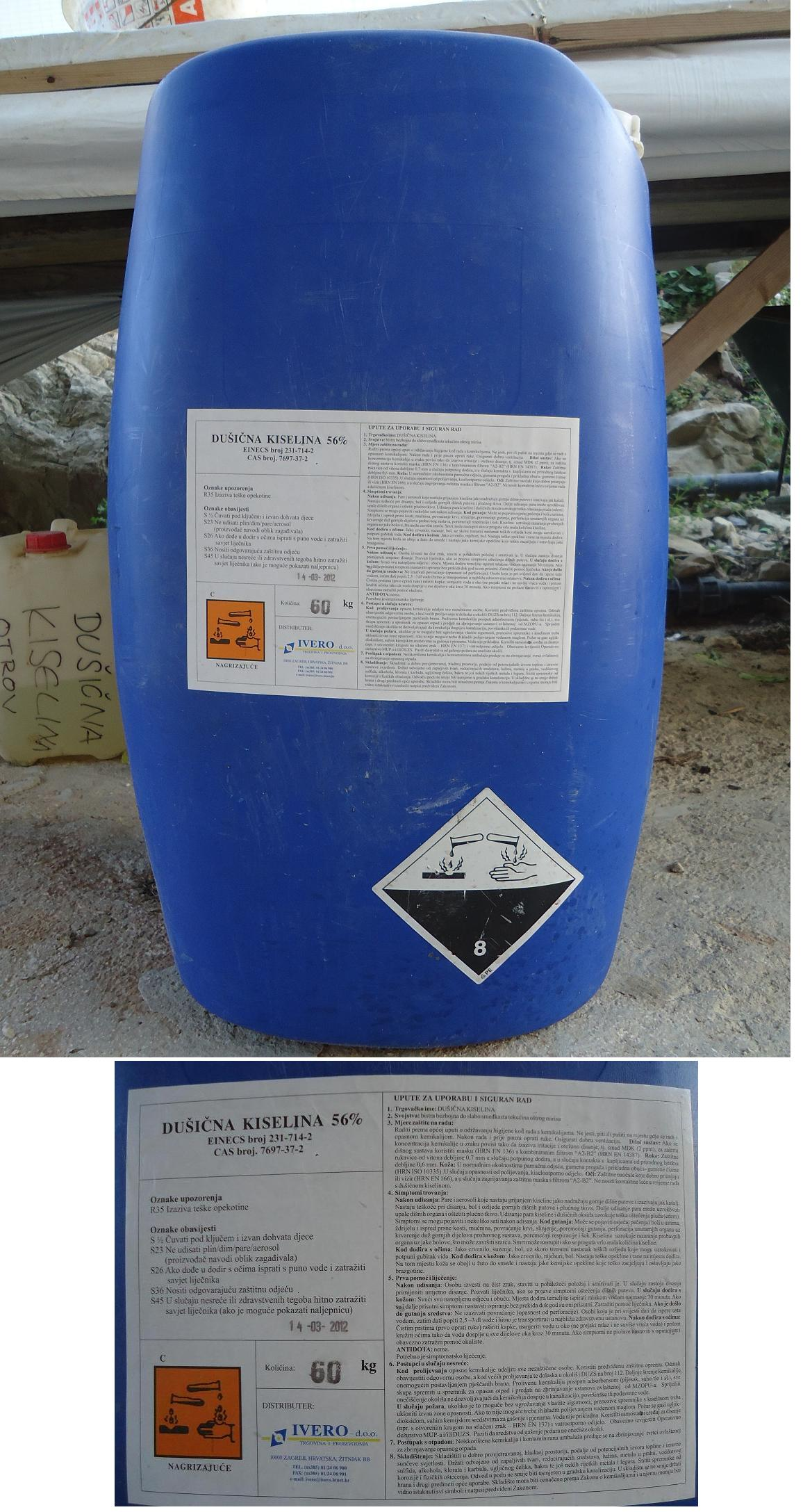 Dušična kiselina /etiketa/